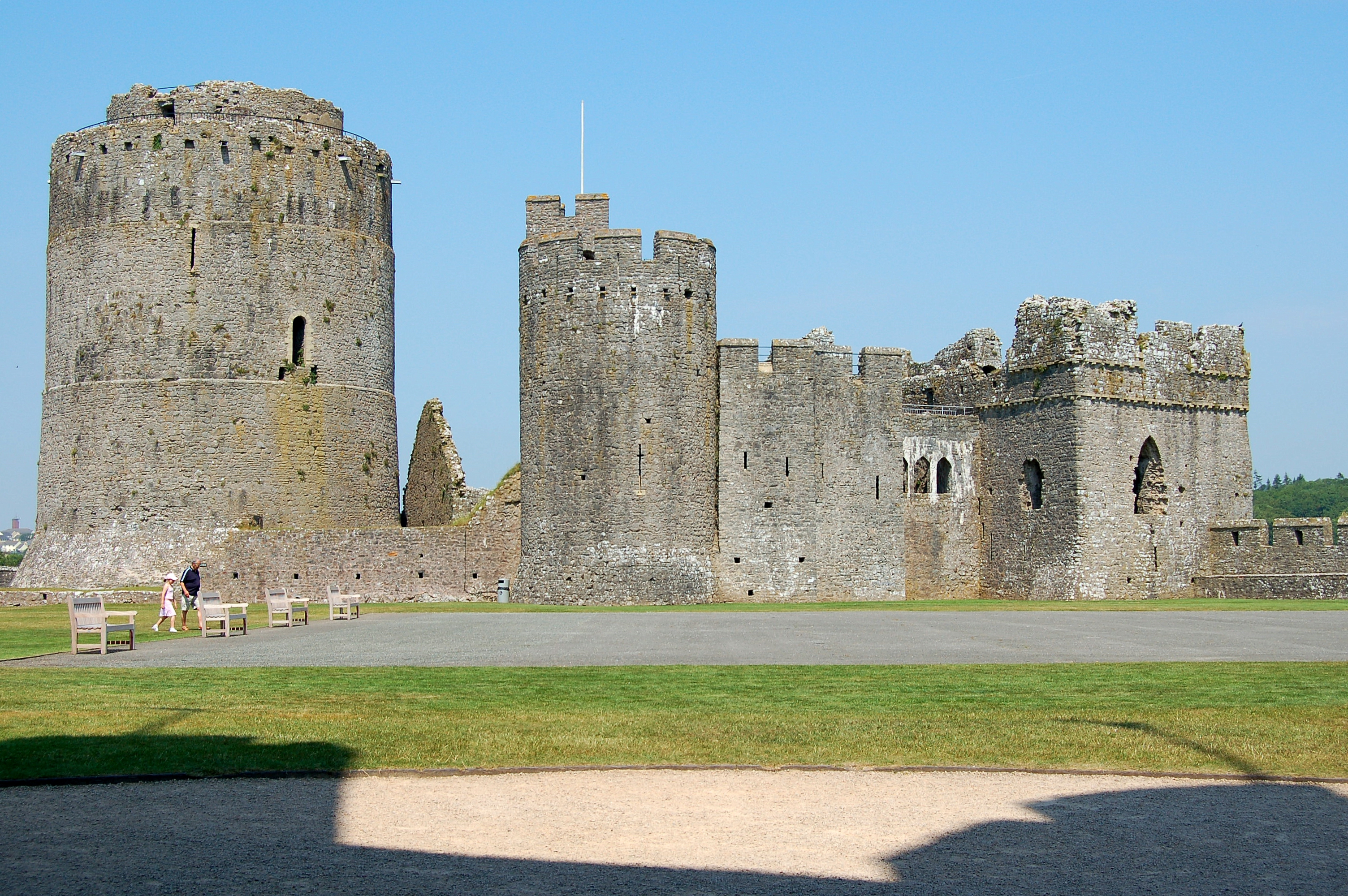 Pembroke Castle, Wales. The Keep is on the left side.